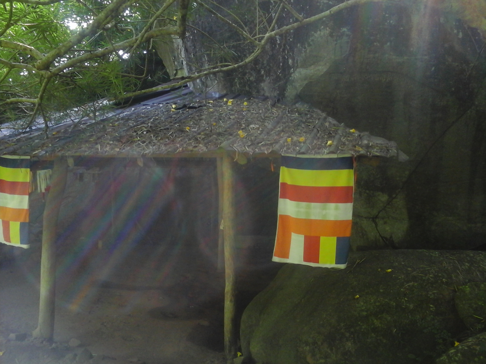 Bhanaka cave